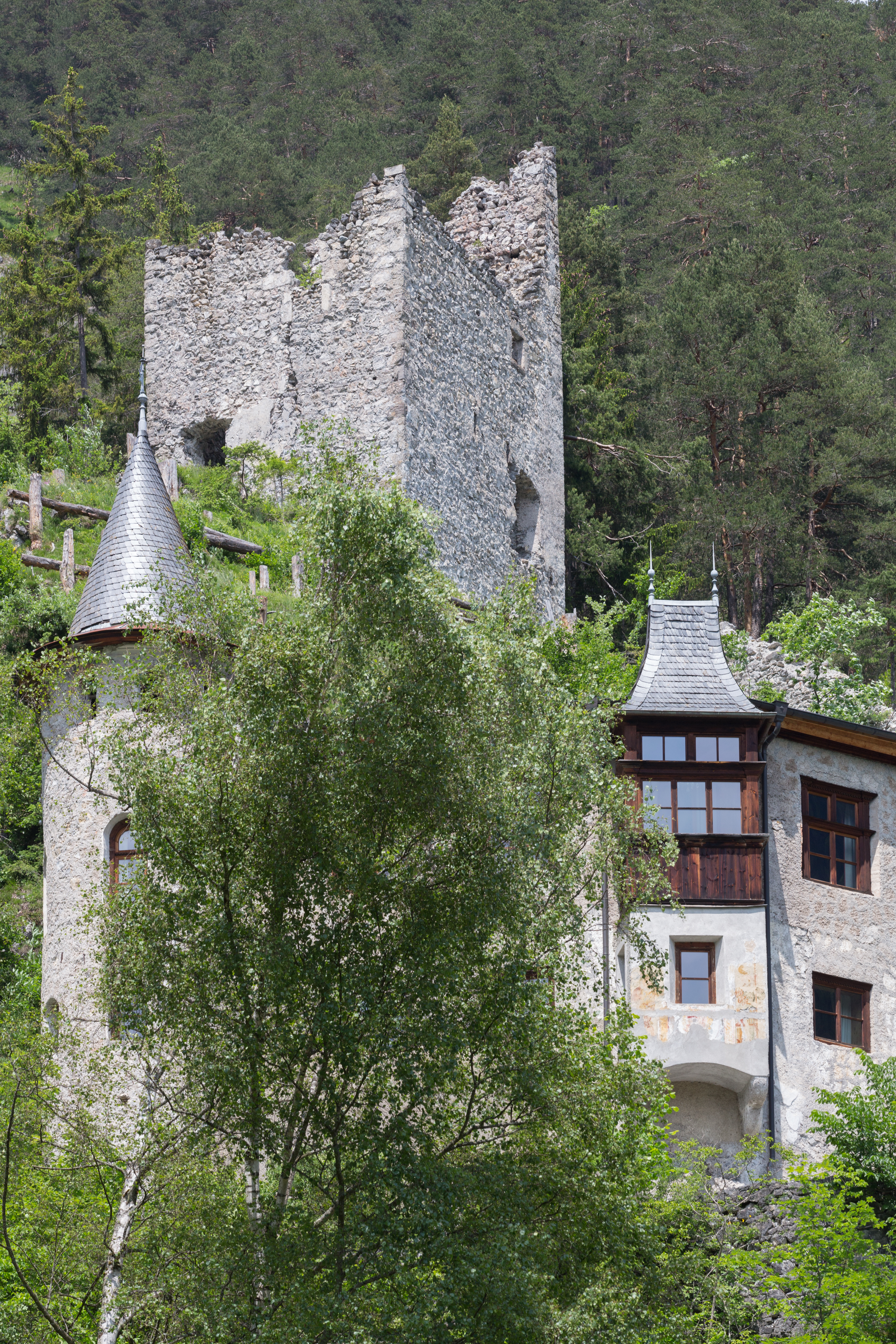 AT 805 Fernstein Castle, Nassereith, Tyrol